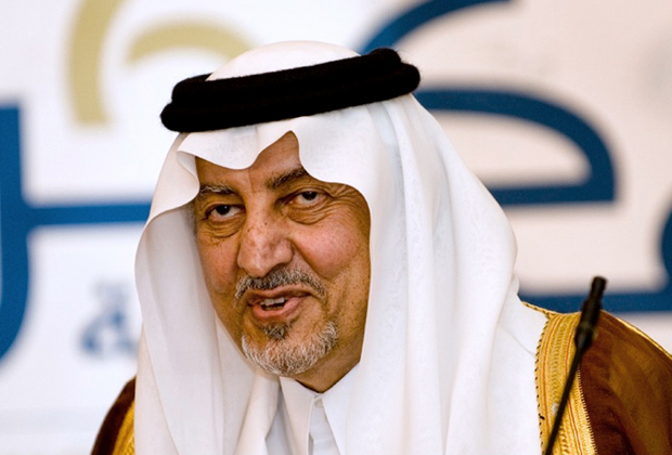 Khalid al-Faisal bin Abdul Aziz Al Saud.